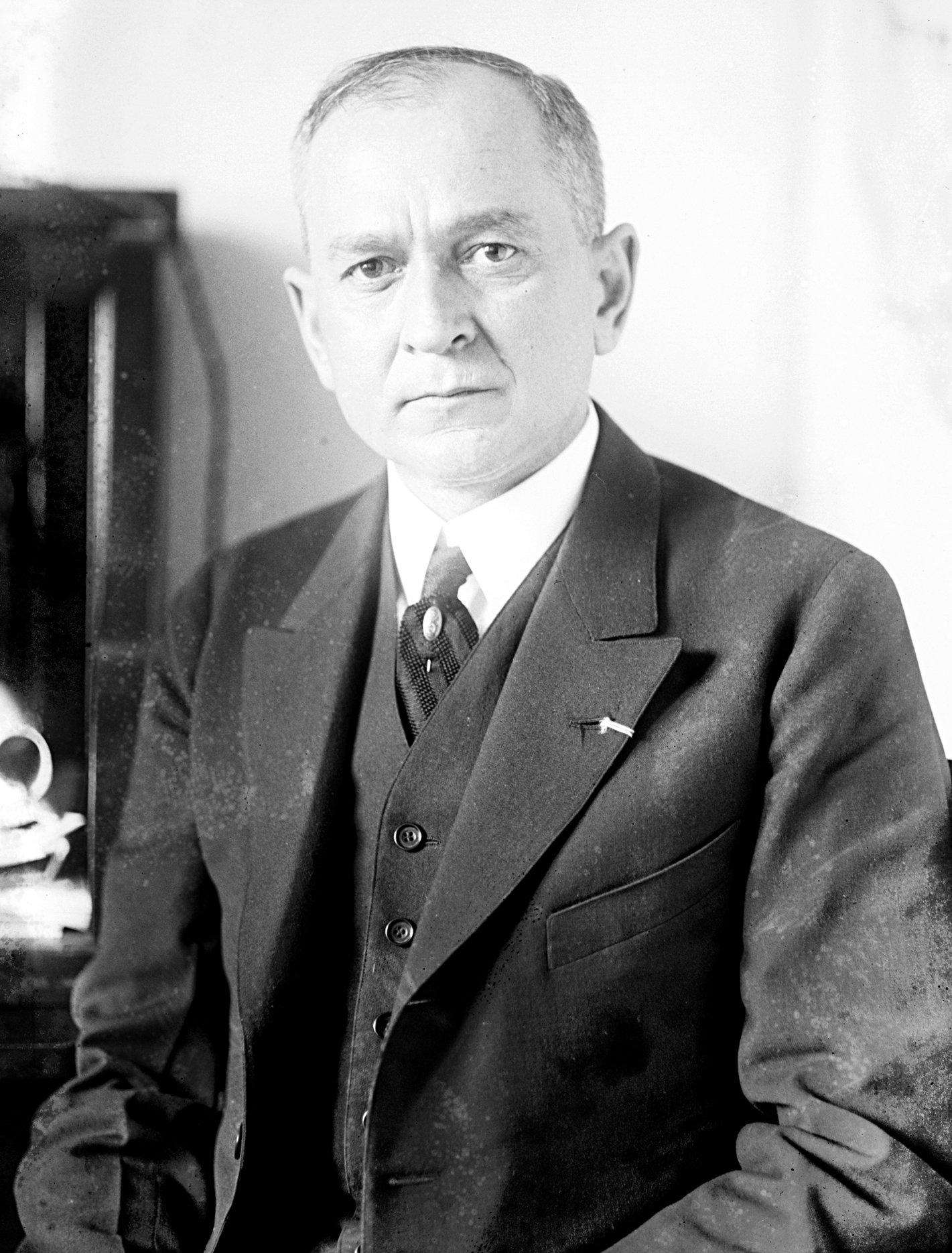 Roy O. Woodruff, US Representative from Michigan